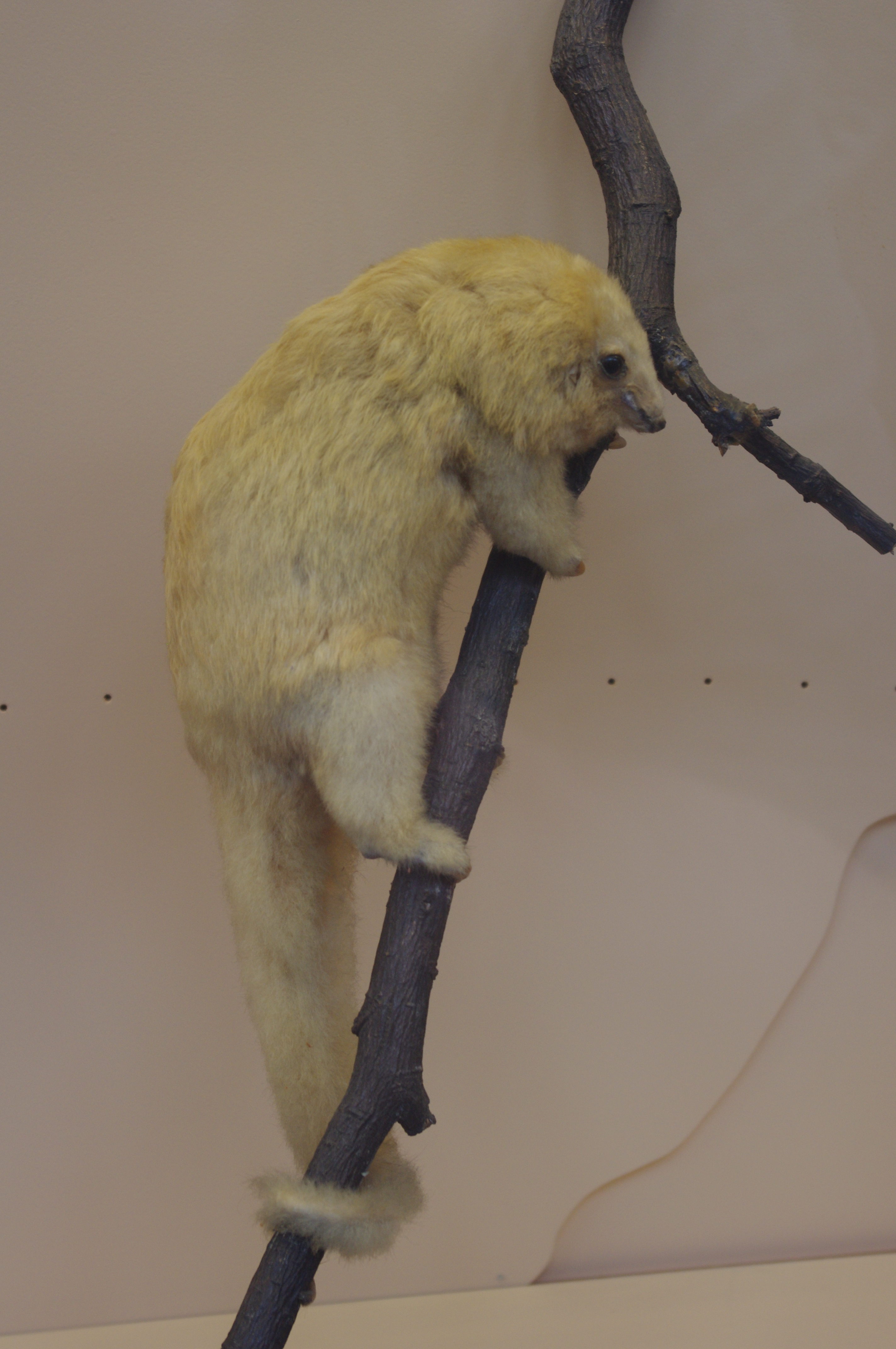 Silky anteater (Cyclopes didactylus (Linnaeus, 1758)) - Natural History Museum, London